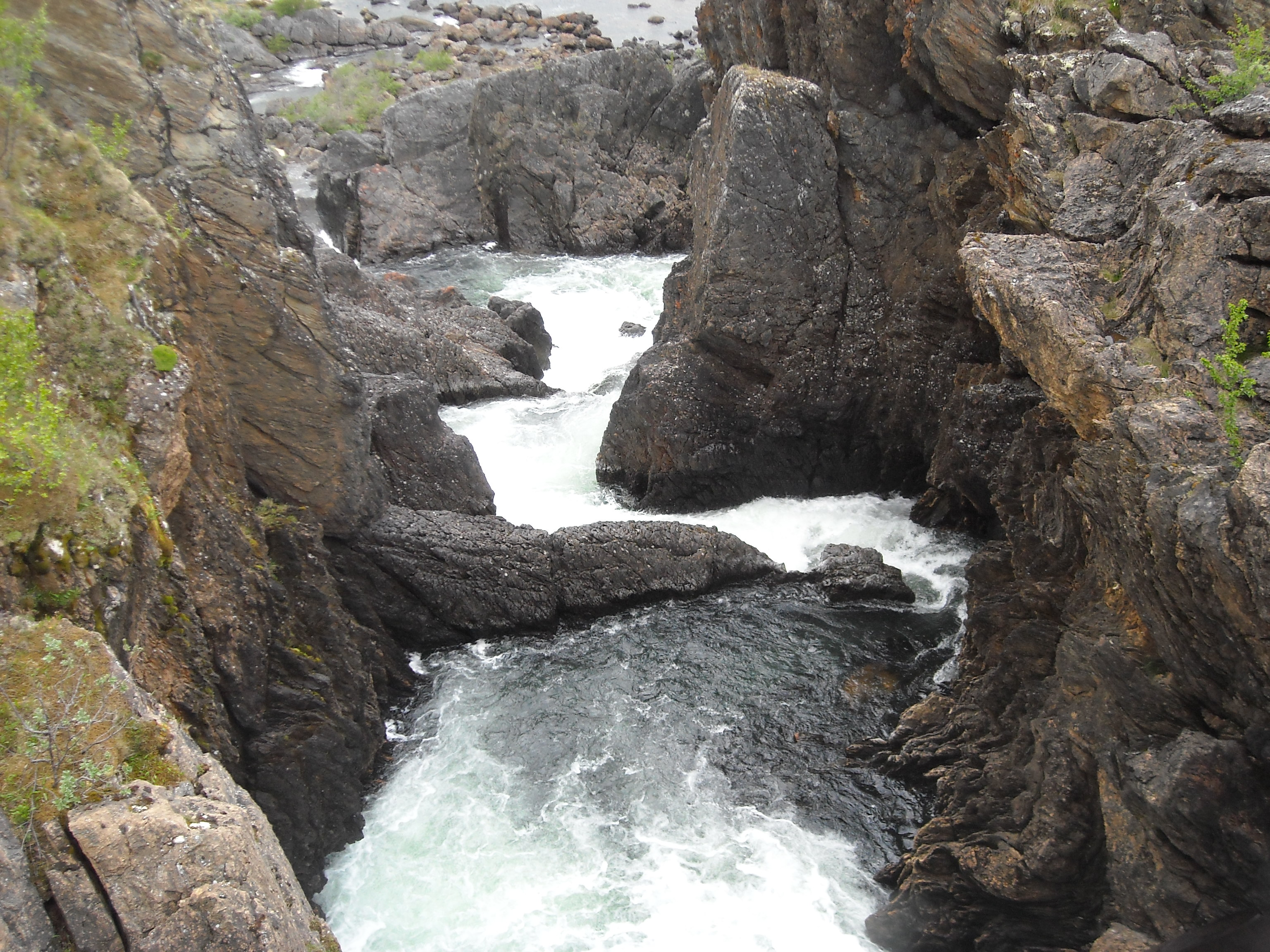 Adamsfjord nature reserve, Lebesby municipality, Norway